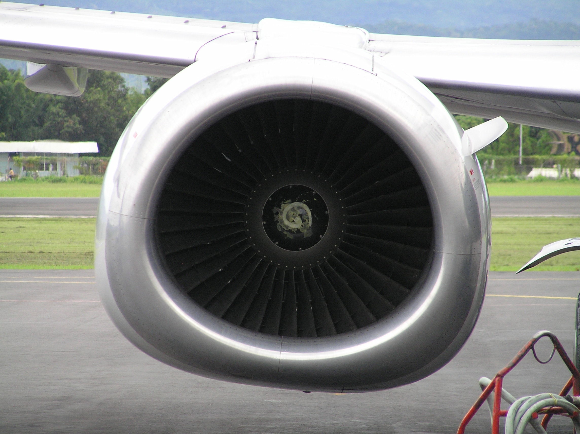 A Boeing 737-400 CFM56-3 engine, with its recognizable non-circular "hamster pouch" inlet